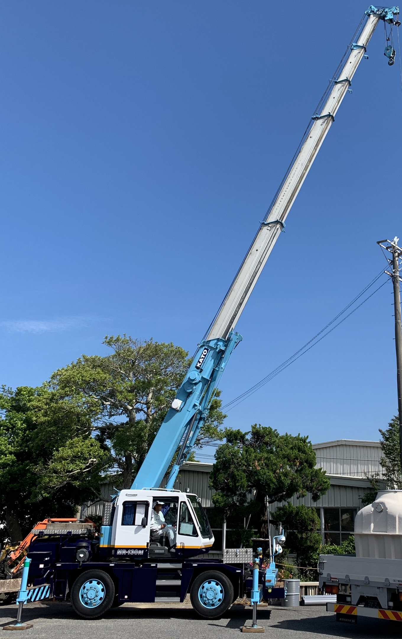 Rough terrain crane Kato MR-130Ri